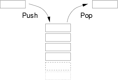 Source: [1]